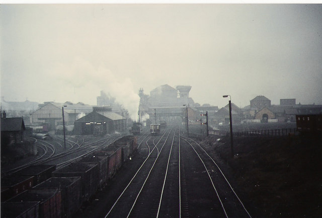 The railway yards at Ashington colliery. The extensive railway complex centred on Ashington, long since dismantled.